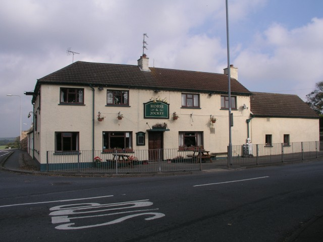 The Horse and Jockey pub, Steynton, Pembrokeshire, Wales